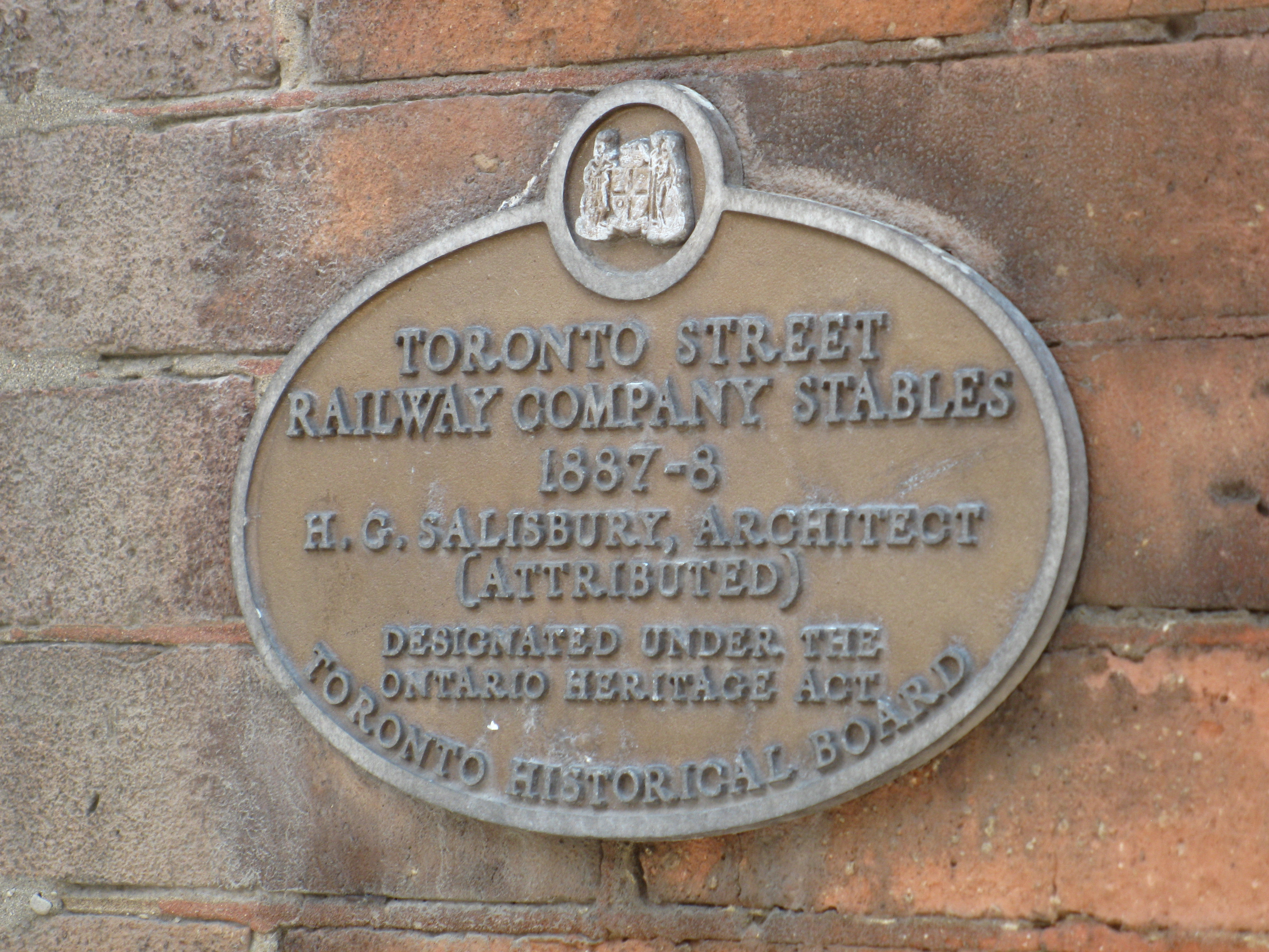 Historic plaque on the Young Peoples Theater, Front and Frederick streets, 2012 07 16